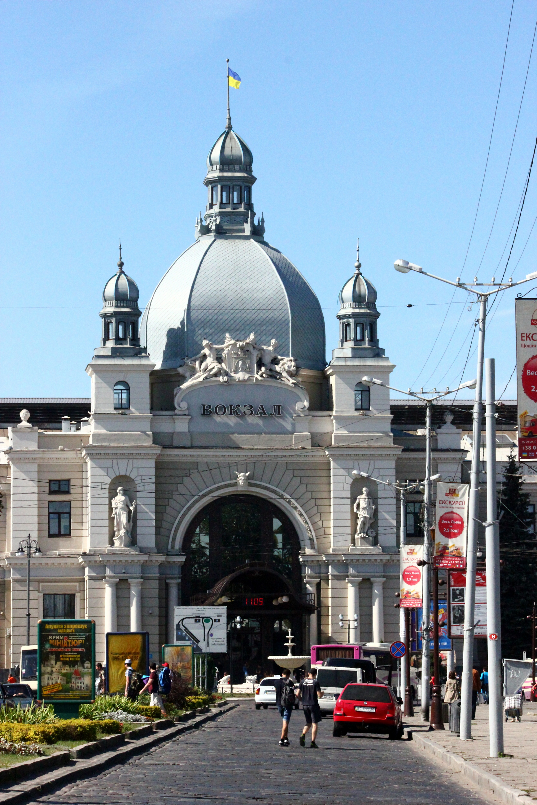 Lviv, main railway station.